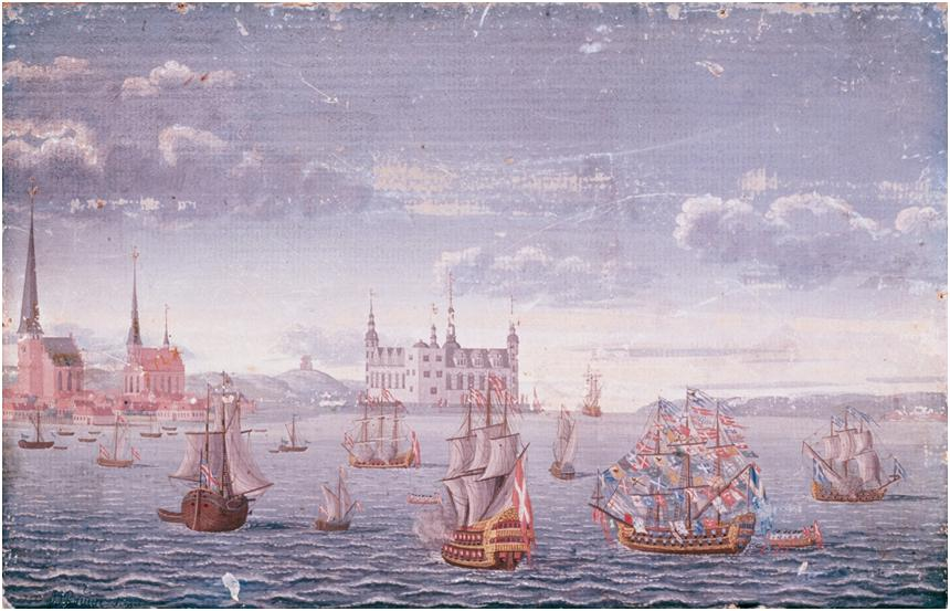 Prospect of Kronborg Castle